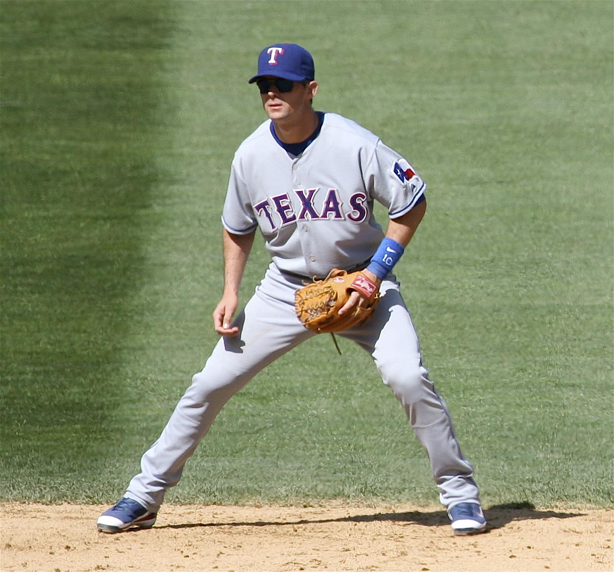 Michael Young in the field.